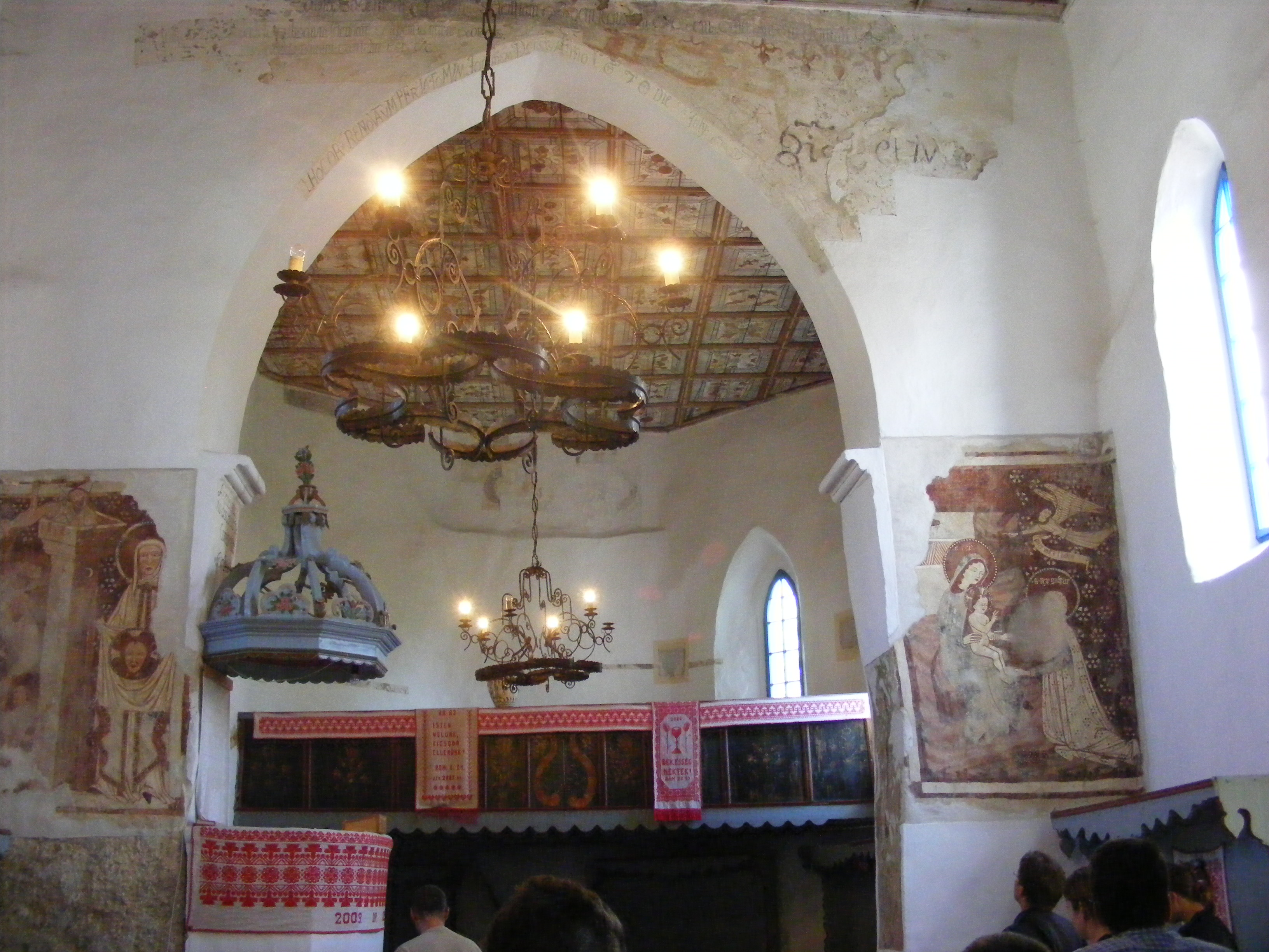 The interior of the reformed church in Feliceni (Felsőboldogfalva), Romania